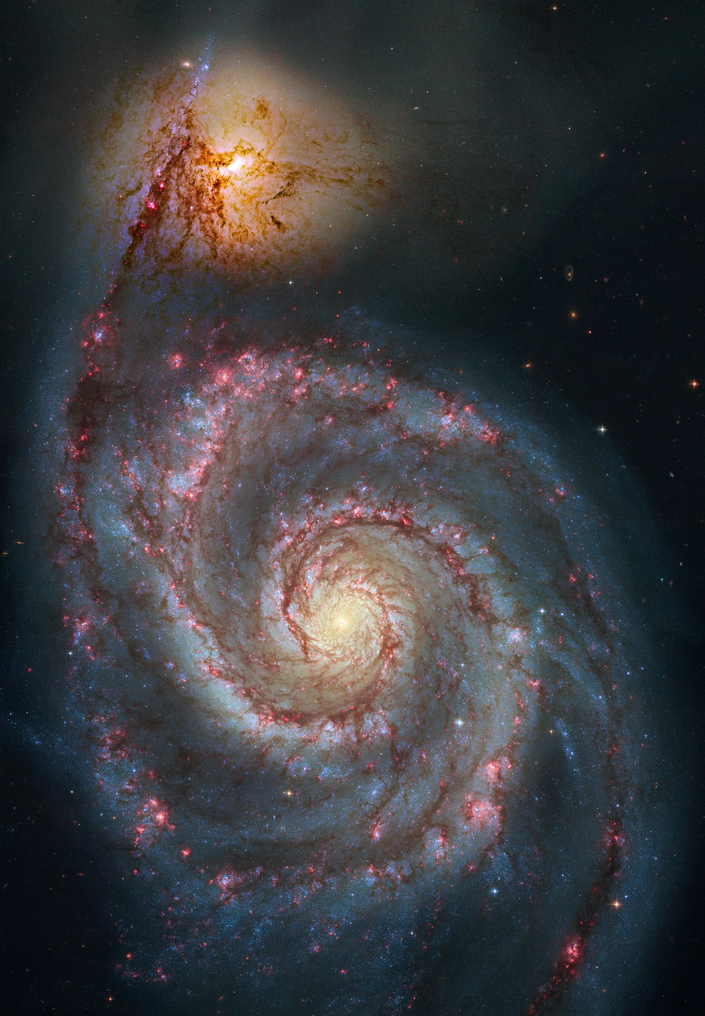 The 51st entry in Charles Messier's famous catalog is perhaps the original spiral nebula - a large galaxy with a well defined spiral structure also catalogued as NGC 5194. Over 60,000 light-years across, M51's spiral arms and dust lanes clearly sweep in front of its companion galaxy (top), NGC 5195. Image data from the Hubble's Advanced Camera for Surveys has been reprocessed to produce this alternative portrait of the well-known interacting galaxy pair. The processing has further sharpened details and enhanced colour and contrast in otherwise faint areas, bringing out dust lanes and extended streams that cross the small companion, along with features in the surroundings and core of M51 itself. The pair are about 31 million light-years distant. Not far on the sky from the handle of the Big Dipper, they officially lie within the boundaries of the small constellation Canes Venatici.